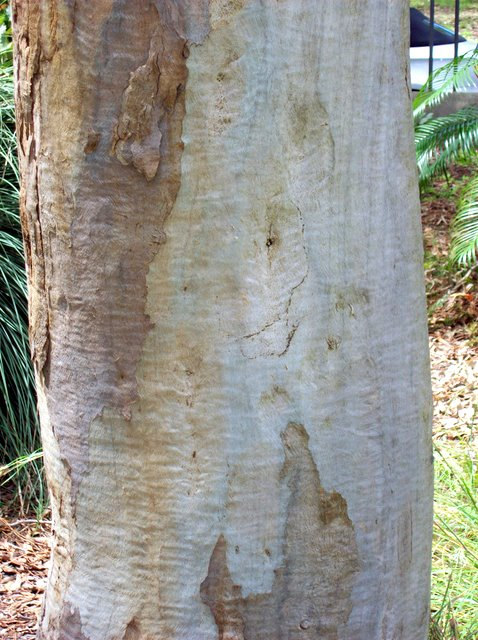 Eucalyptus dawsonii trunk, RBG Sydney